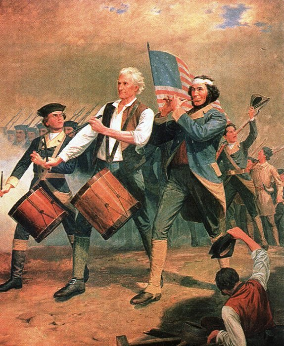 Spirit of '76 1912 version exhibited at the City Hall in Cleveland